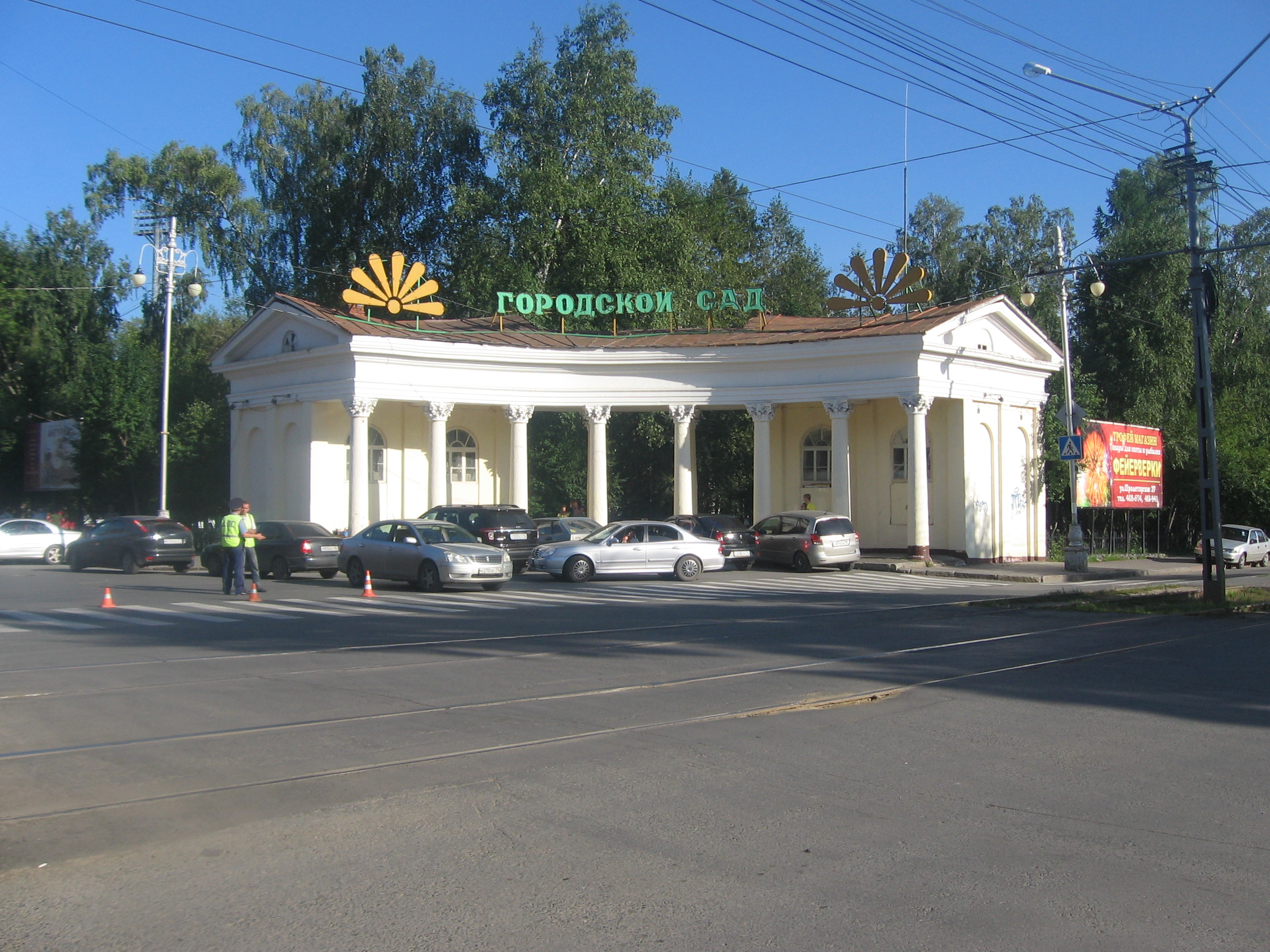 Tomsk City garden